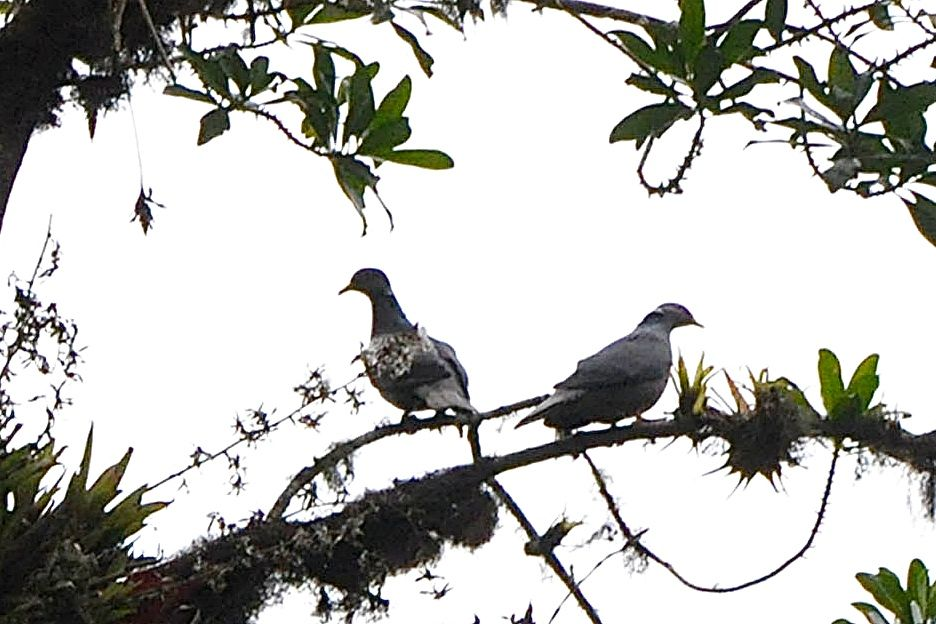 Band-tailed Pigeon (Patagioenas fasciata albilinea), Nono-mindo road, Ecuador